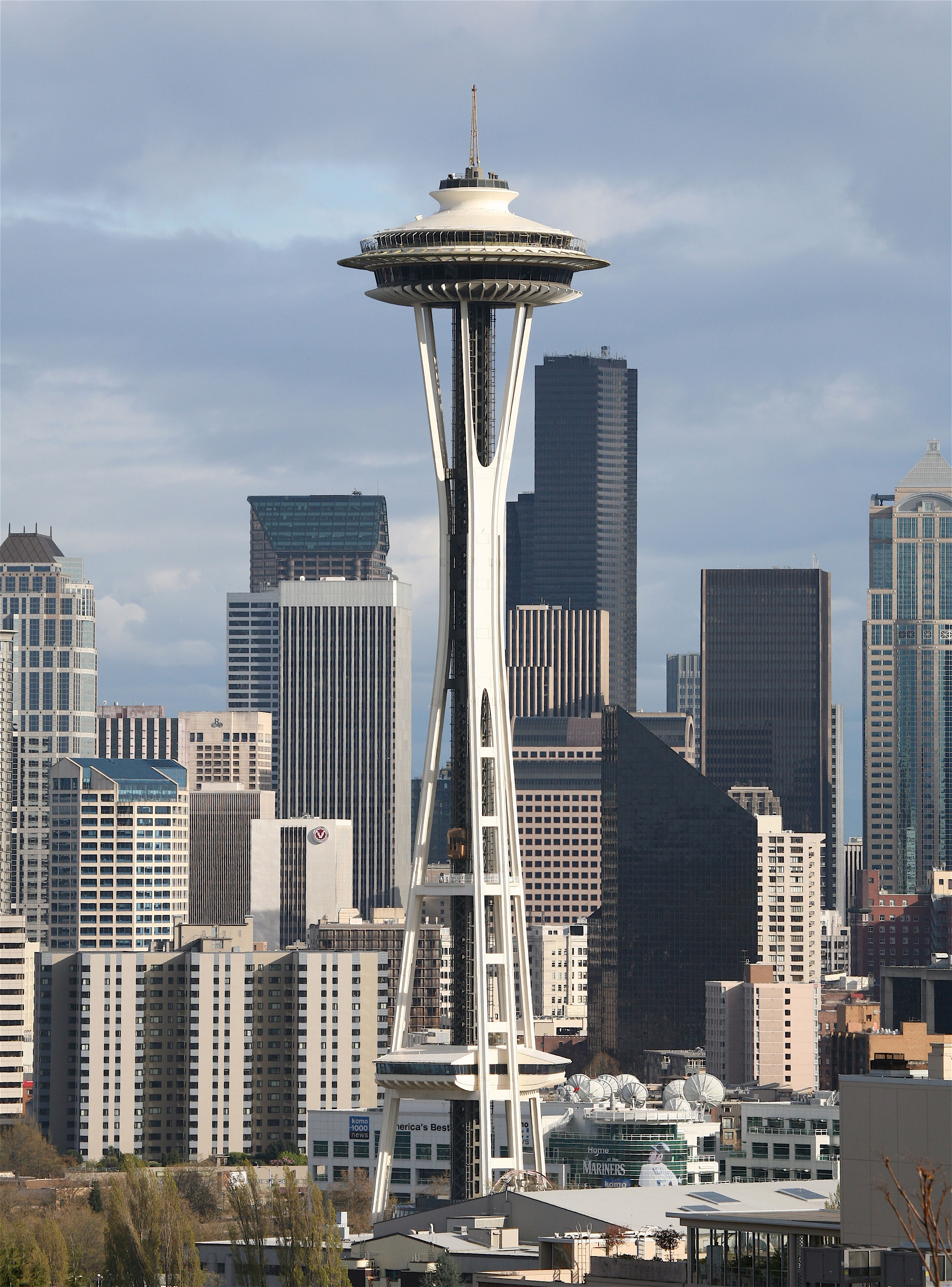 The Space Needle from Queen Anne.